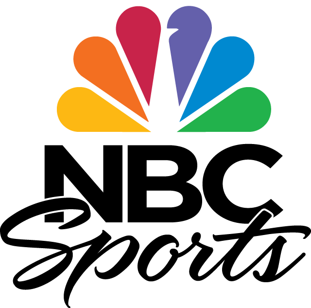 Current logo for NBC Sports